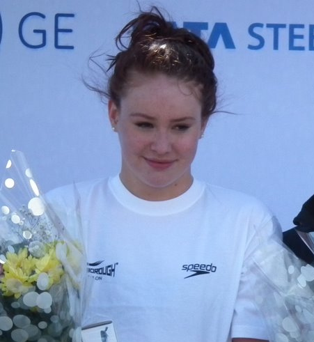 Lucy Hall (2nd place), Helen Jenkins (winner) and Jodie Stimpson (3rd place), on the podium after the 2011 Strathclyde Park Triathlon